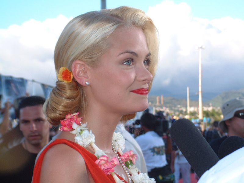 American actress and model Jaime King, at the Hawaiian premiere of the film Pearl Harbor. depicted person: Jaime King (age: 22)